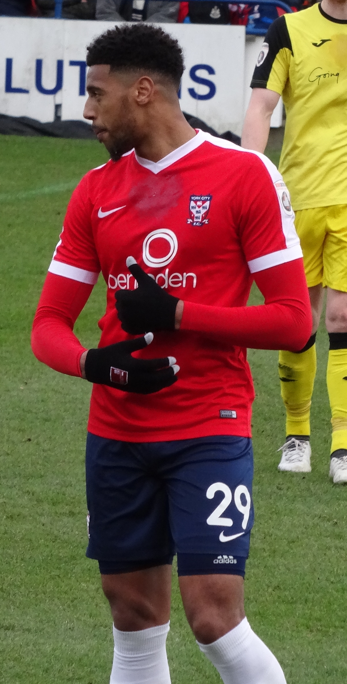 Vadaine Oliver playing for York City against Brackley Town at Bootham Crescent, York on 25 February 2017